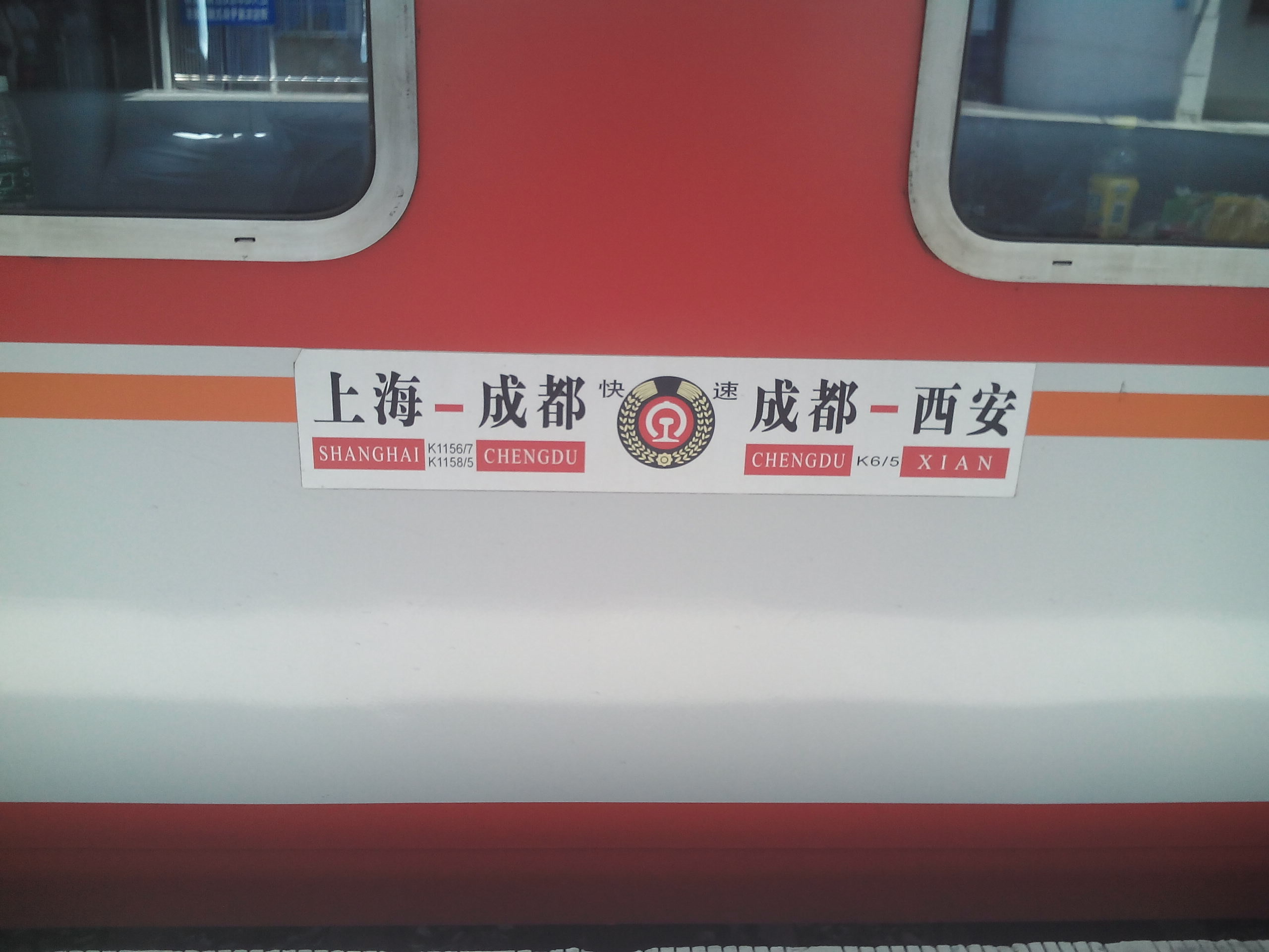 Taken at Zhenjiang Station